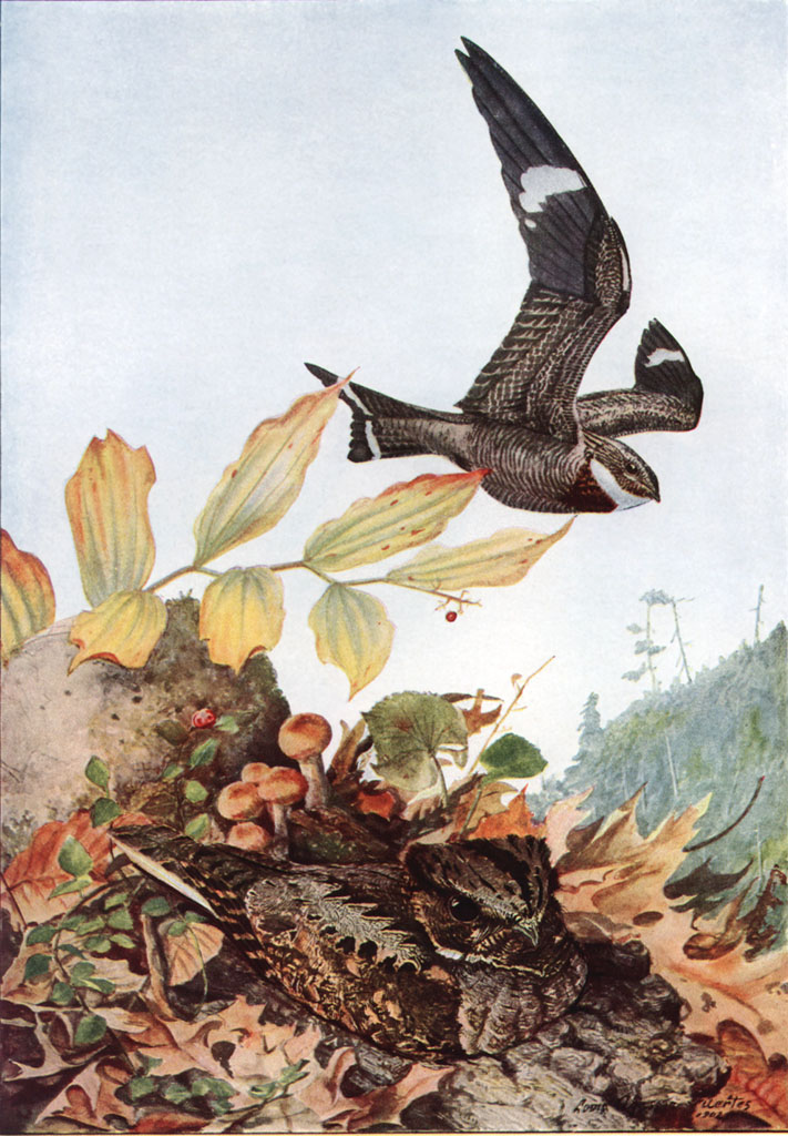 Whip-poor-will, Caprimulgus vociferus, and Common Nighthawk, Chordeiles minor, offset reproduction of watercolor